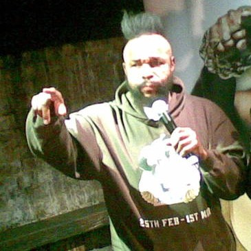 Mr. T in London.